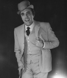 Adolfo García Grau- actor argentino